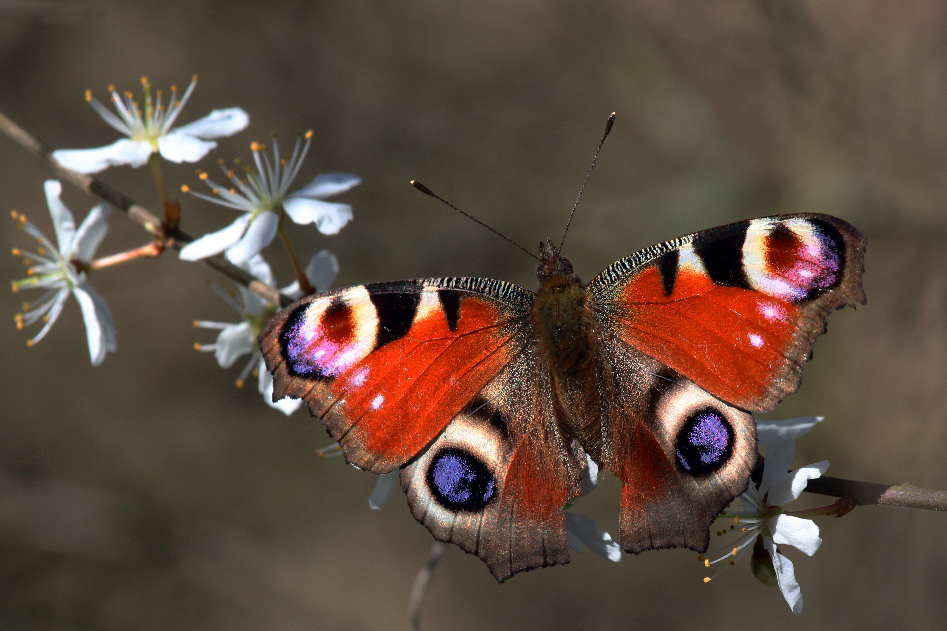 Peacock butterfly (Aglais io) on blackthorn (Prunus spinosa) Otmoor RSPB reserve, Oxfordshire